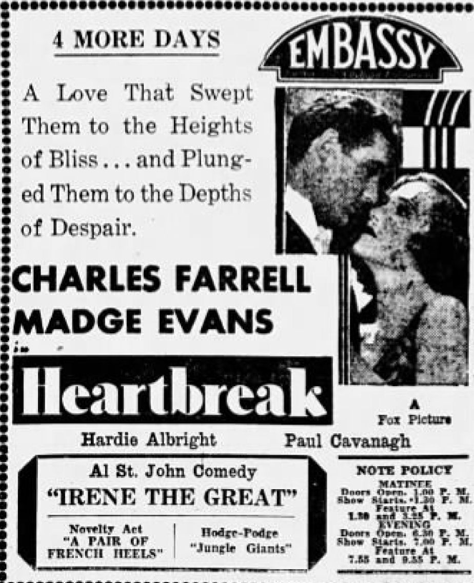 Embassy Theater advertisement for the American drama film Heartbreak (1931) - 16 Nov. 1931 Morning Call, Allentown PA